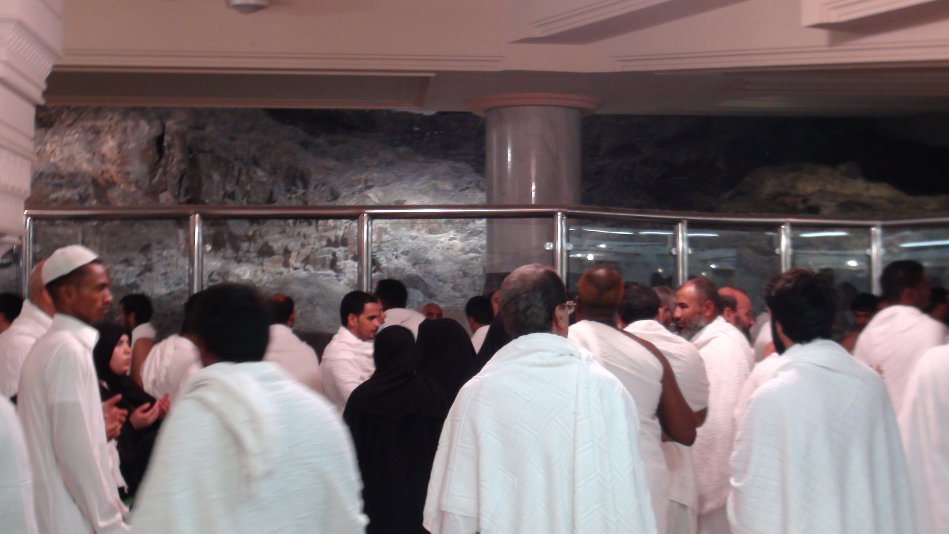 Panel guidance on Mount Safa exists inside the Grand Mosque in Mecca, It begins AL-Sa'yee